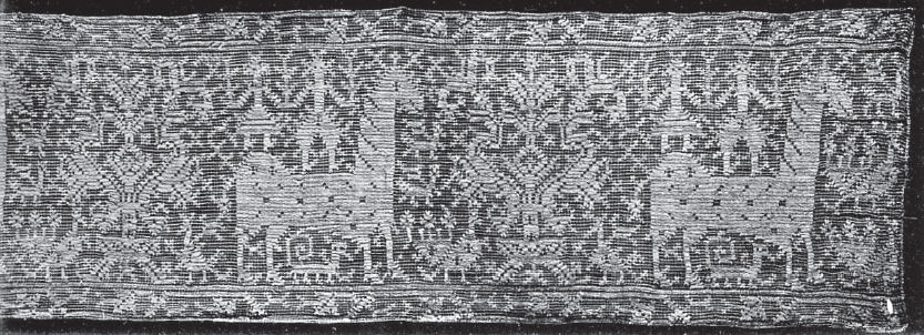 Embroidered Buratto, 16C, Florence